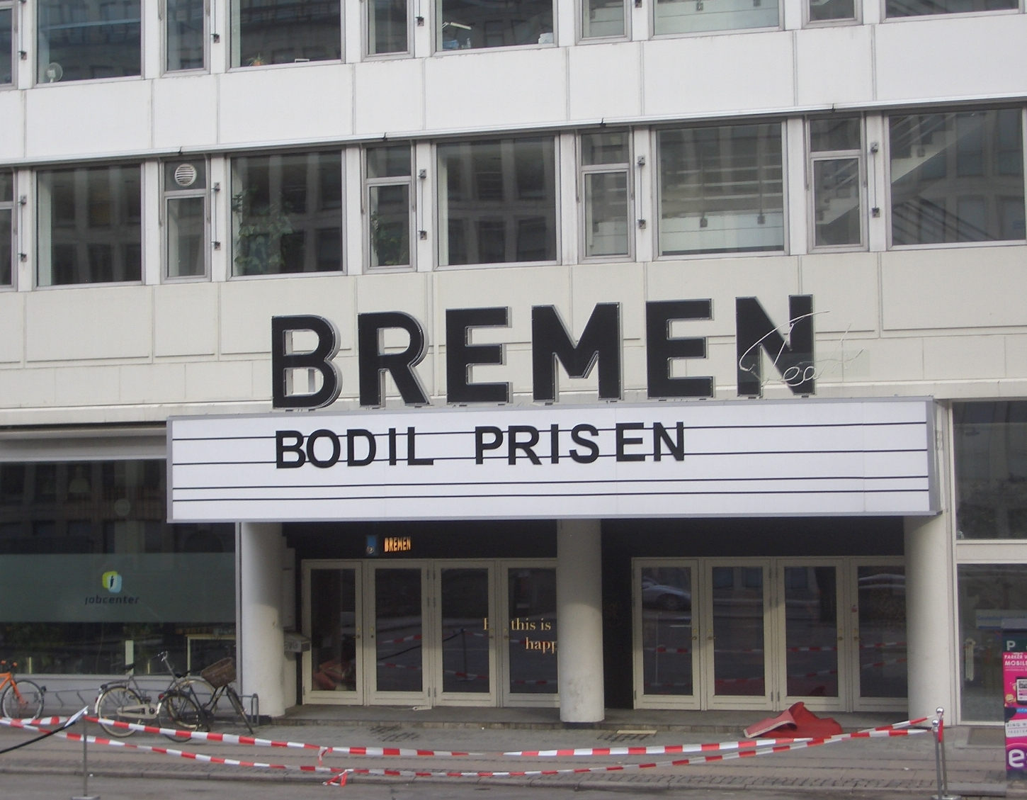 Entry to the Bremen Teater in Copenhagen about an hour before the opening of the ceremony.